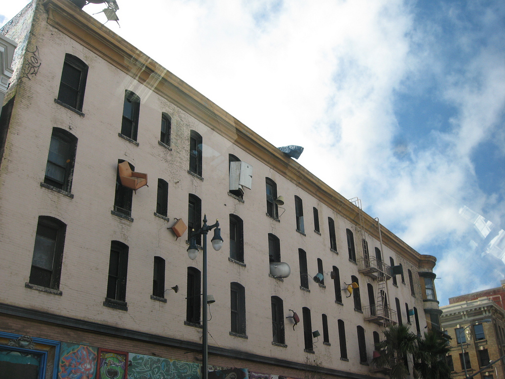 Hugo Hotel, famous for its murals as shown here, is awaiting demolition. It is currently abandoned.